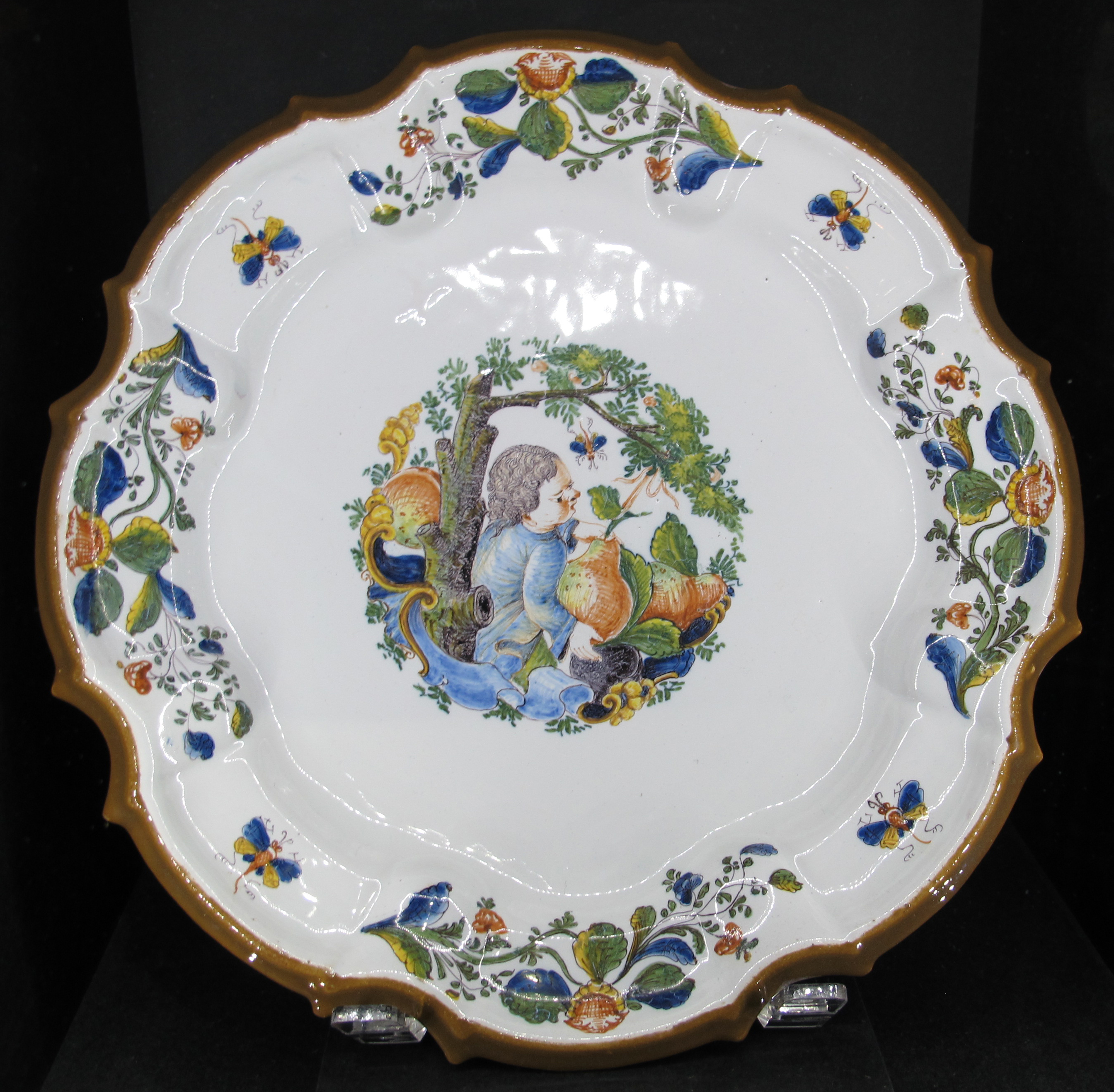 XXVIII Biennale dell'Antiquariato (2013), Courtesy of Caviglia